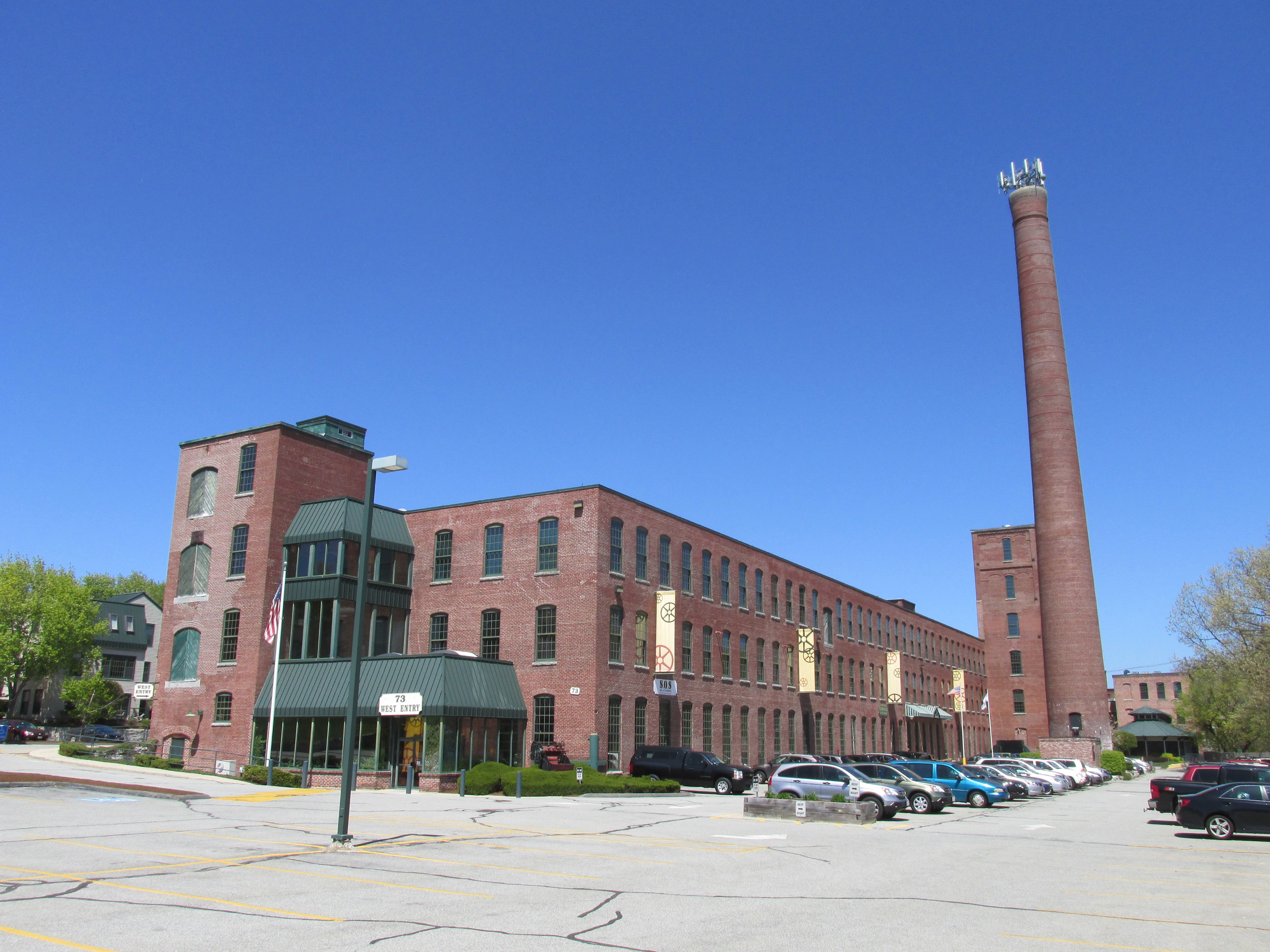 The Mill, North Chelmsford Massachusetts